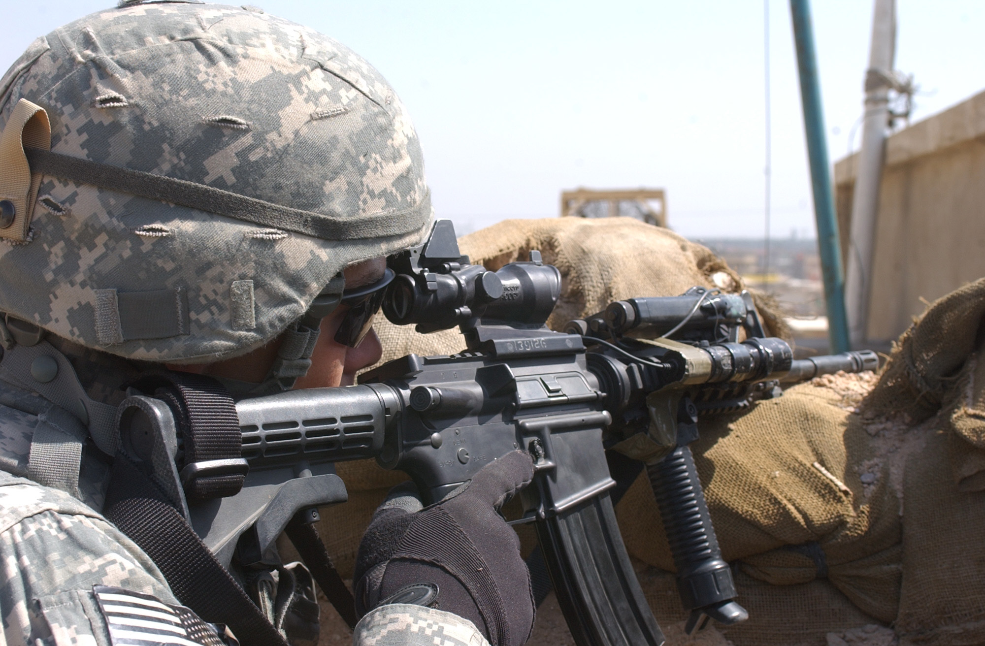 U.S. Army Pfc. Robert Wimegar, with Alpha Company, 2nd Battalion, 16th Infantry Regiment, 2nd Brigade Combat Team, 1st Infantry Division, pulls security on the rooftop of the District Council Hall in the Mashtal area of East Baghdad, Iraq, March 13, 2007. (U.S. Army photo by Spc. Davis Pridgen)